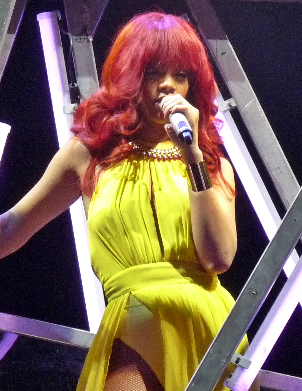 Rihanna live at Bankatlantic Center, Sunrise, Florida, on her tour The LOUD Tour. 14th July 2011